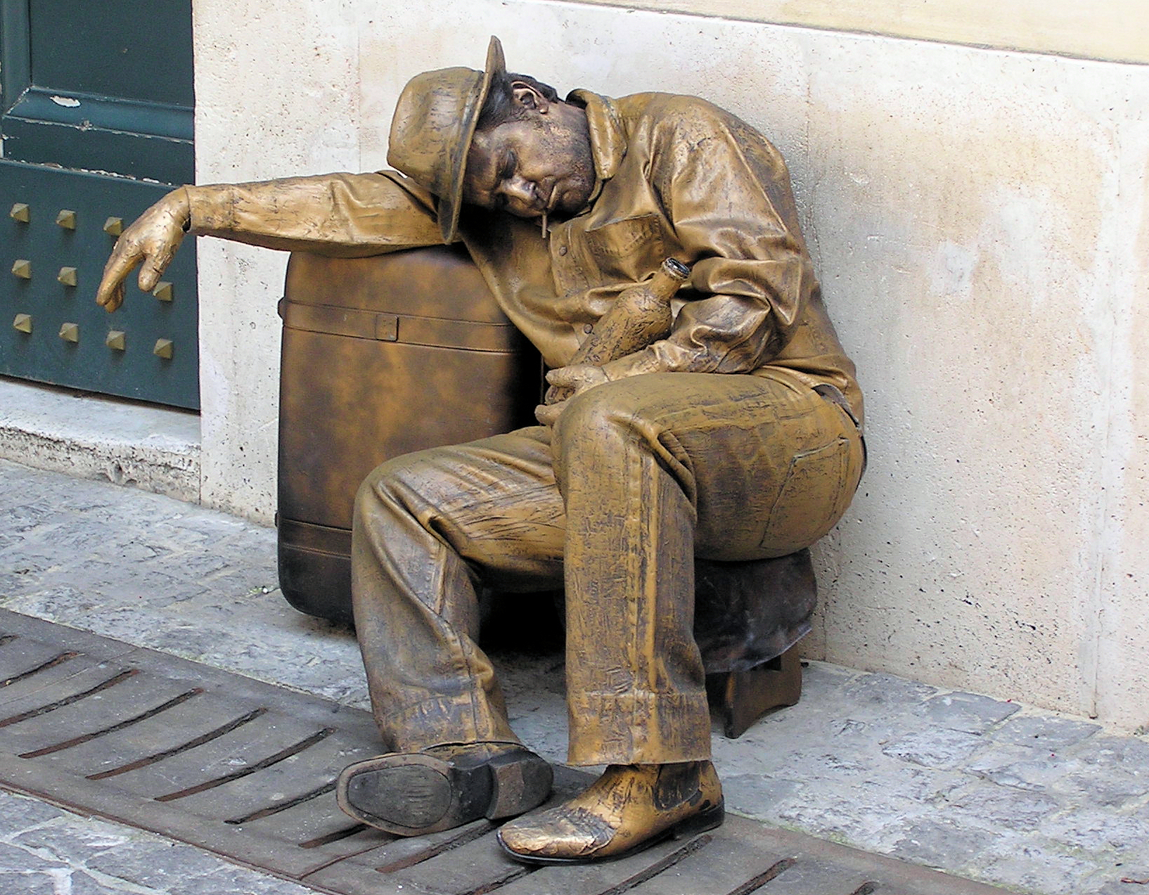 Living statue in Rome, Italy. The performer is presumably recreating the look of bronze. What you cannot see is his perfect stillness. He stirs a little, and yawns, only when a coin is dropped into the collecting bowl.